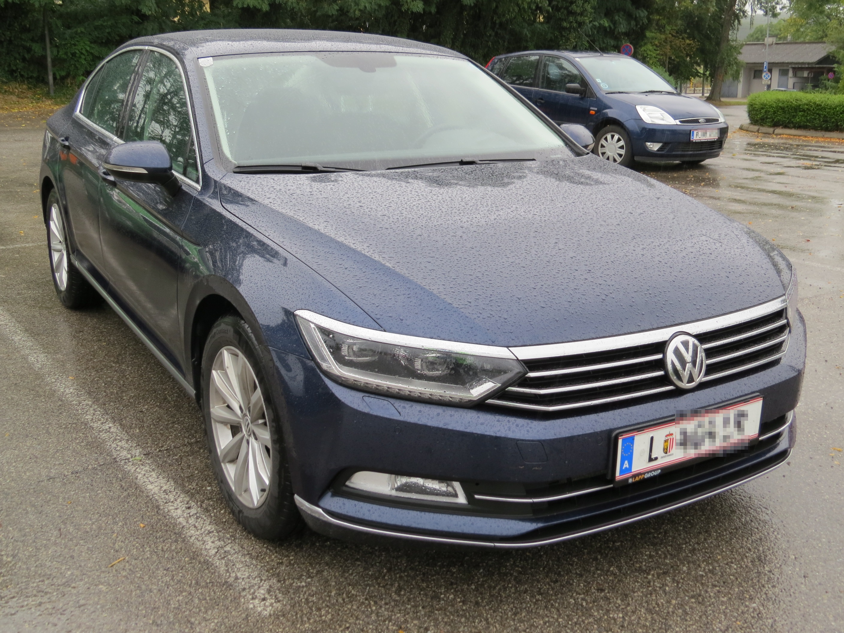 Volkswagen Passat B8 1,6 TDI Highline at Park and Ride Bahnhof Böheimkirchen